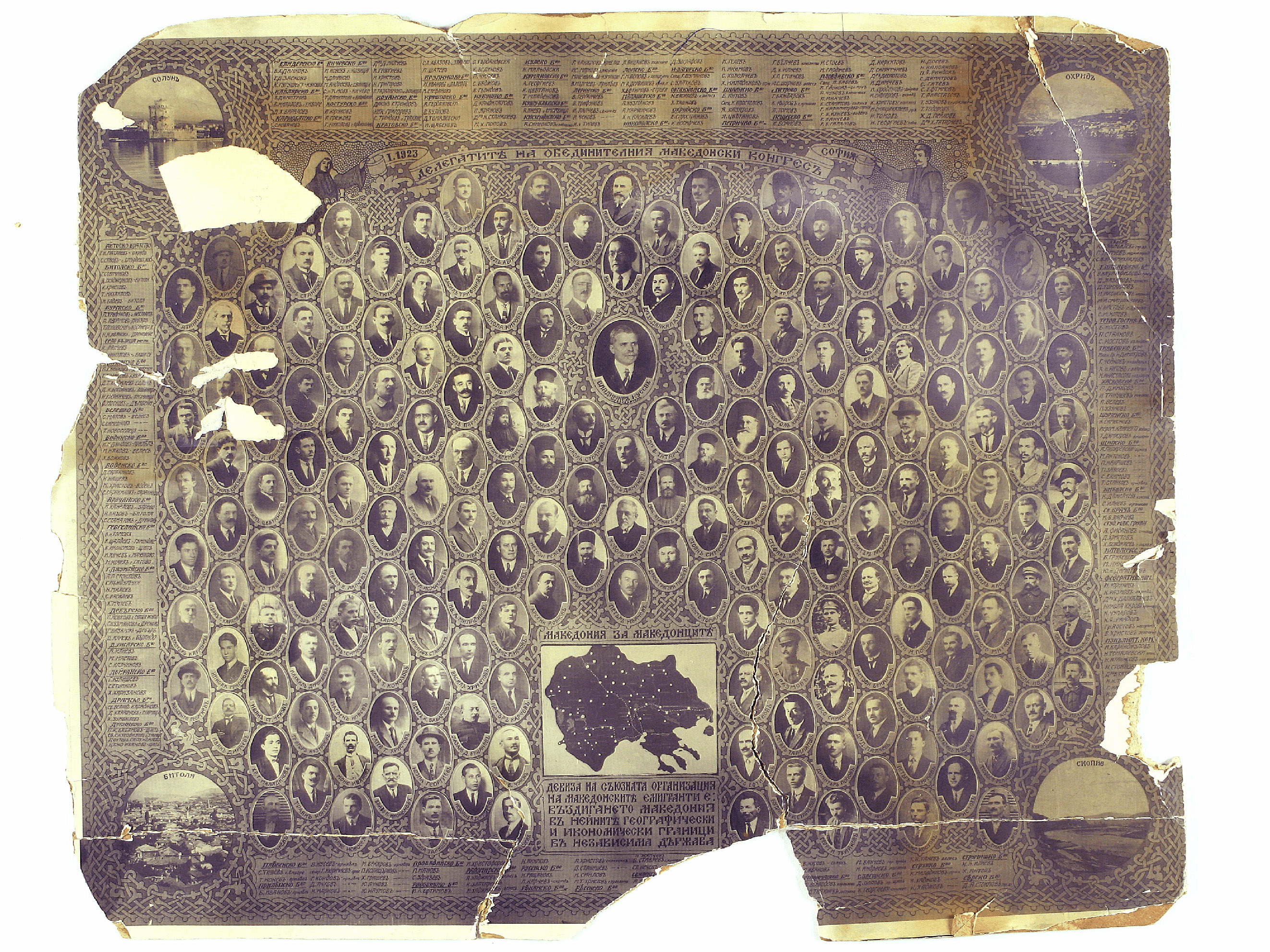 Board of members of MFO (formar IMARO members) in their congres of january 1923 in Sofia, Bulgari